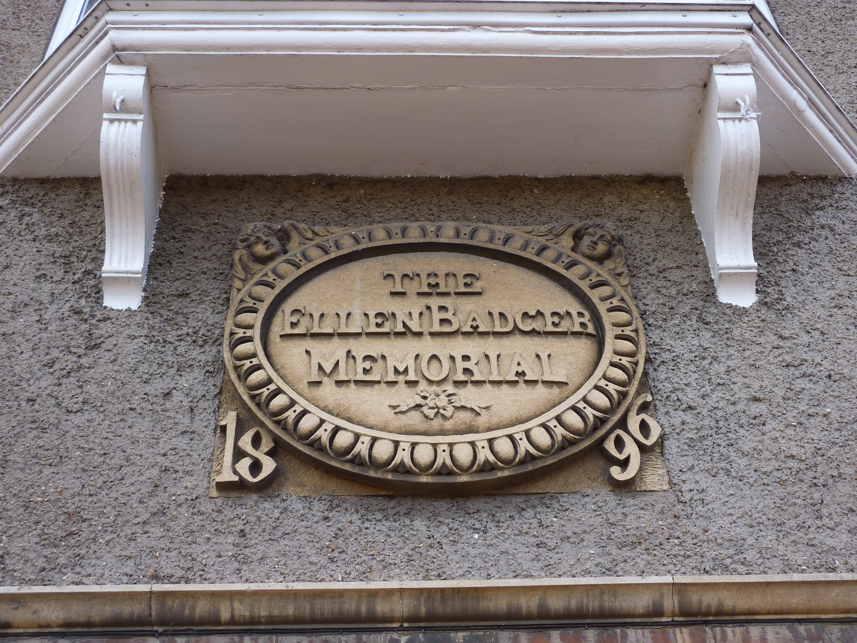 The Ellen Badger is a small community NHS hospital located within the town of Shipston on Stour in Warwickshire. It is operated and funded by the South Warwickshire Primary Care Trust.